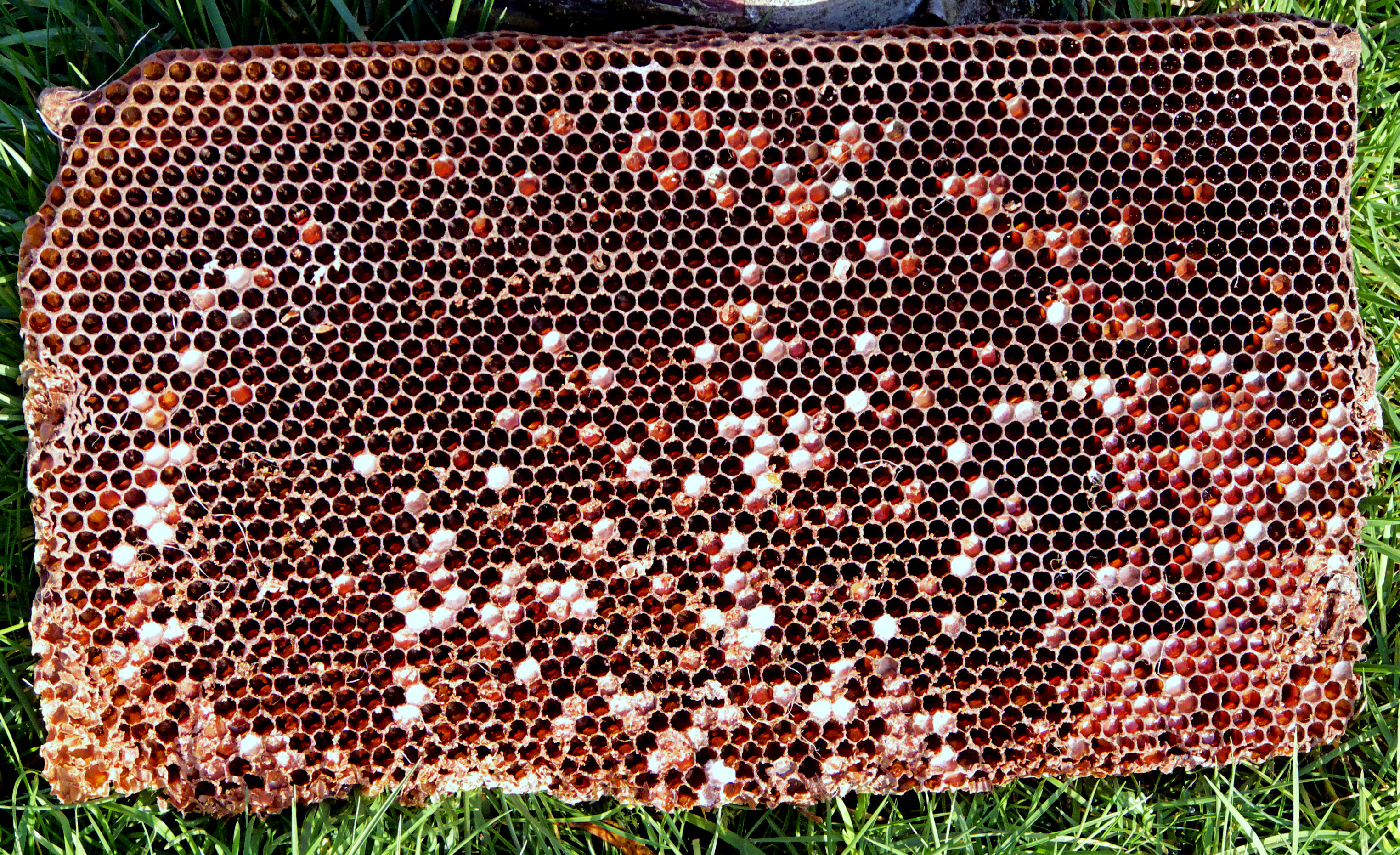 Honeycomb used